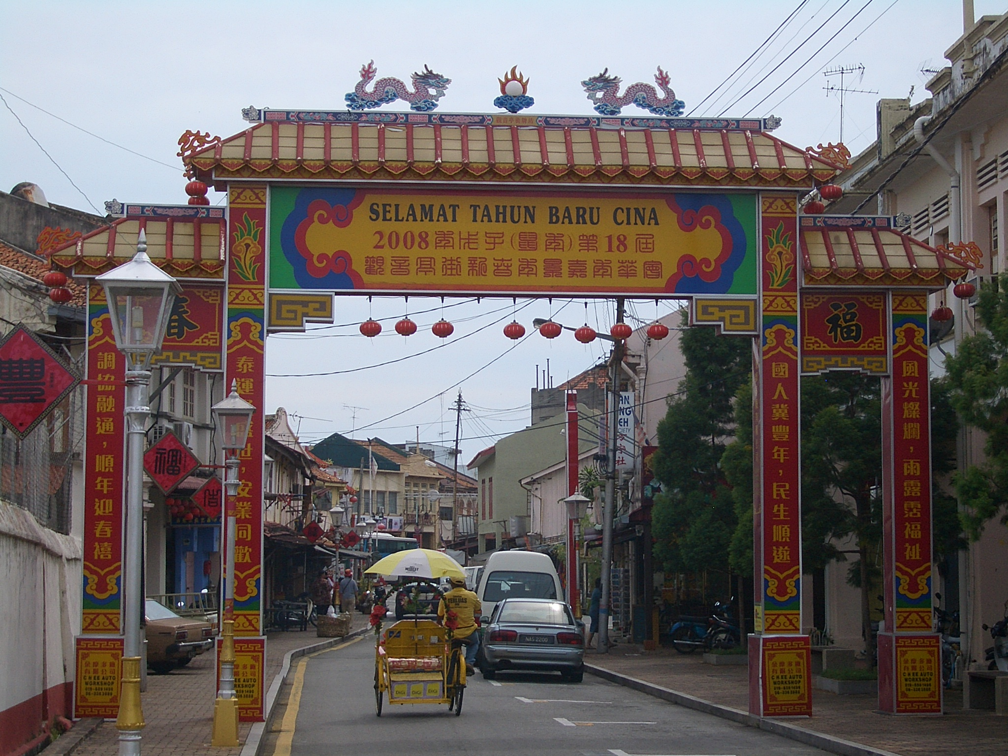 Melaka Chinatown (Baru Cina)